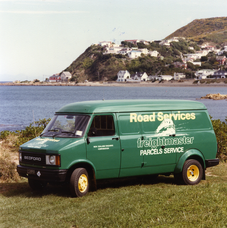 These images are from New Zealand Government Railways Department, General Manager's Office. The General Manager's office appears to have functioned as the Head Office of the department.